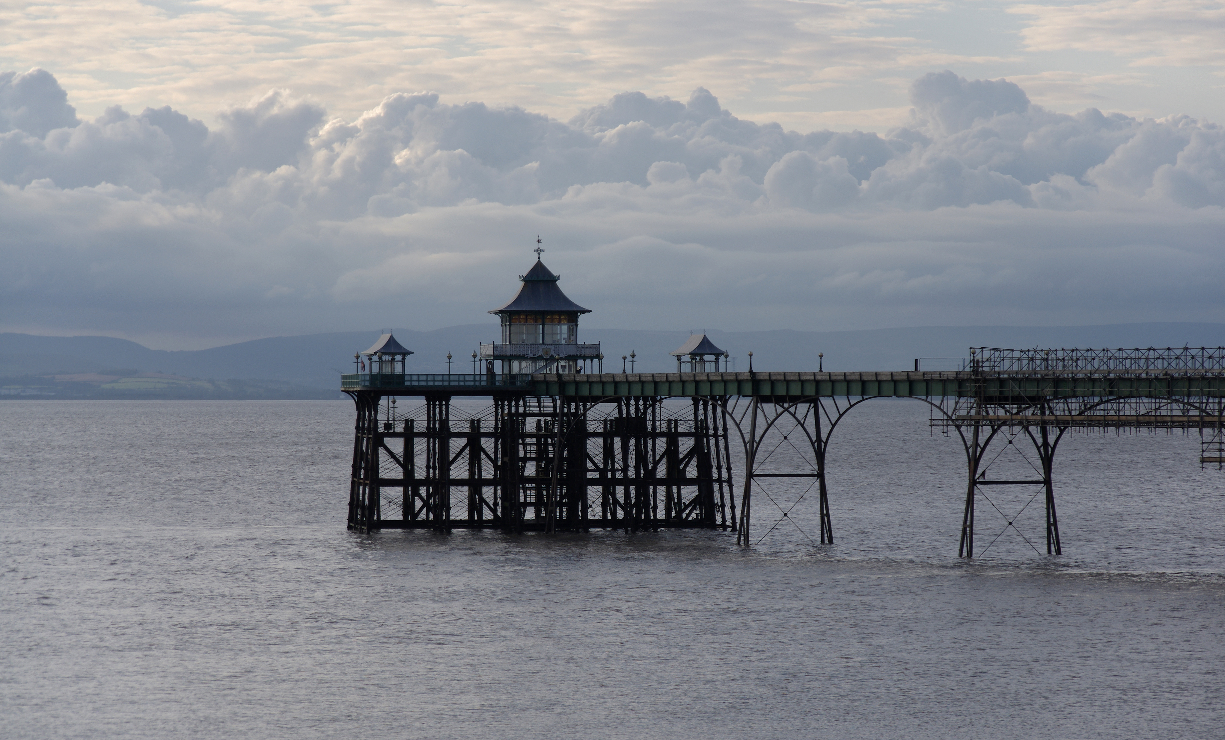 Clevedon Pier with an impressive cloud bank behind it.